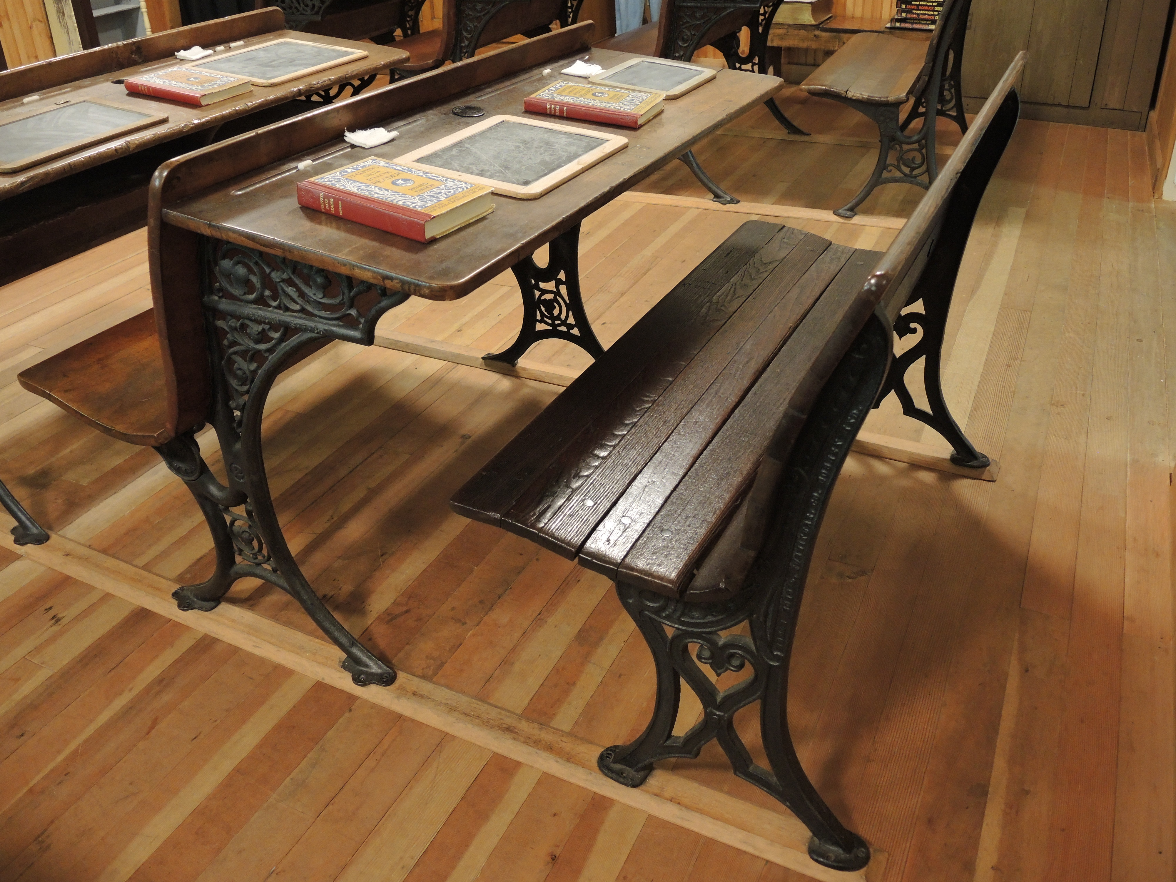 Bench of a school desk manufactured by the American S.F. Company of Buffalo, New York in about 1900 at the Webster, New York Museum